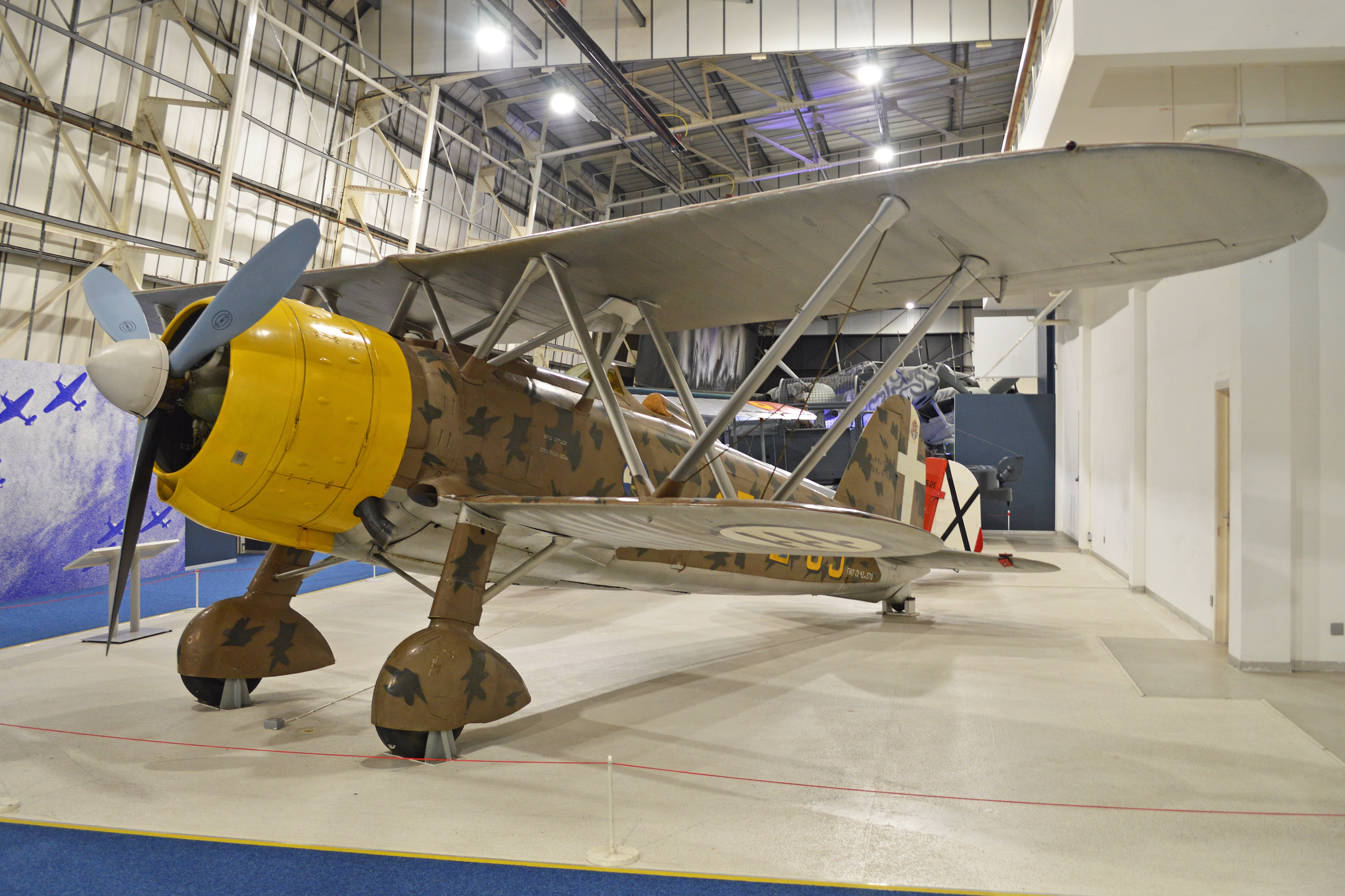 Based in Belgium as part of the CAI (Corpo Aereo Italiano) during the Battle of Britain. Forced landed on the beach at Orfordness, Suffolk on 11th November 1940 when an oil pipe broke during a raid on Harwich. Taken to Martlesham Heath for repair and then flown to Farnborough. In April 1941 it joined the Air Fighting Development Unit at Duxford and remained in use there until October 1942. It was then allocated for preservation by the Air Historical Branch and by mid 1943 it was dismantled and stored. In 1964 it had reached Biggin Hill, where it was then ‘restored’. Further restoration was carried out at St Athan in 1974 and in 1978 it went on permanent display in the Battle of Britain Hall where it remains today. RAF Museum, Hendon, London, UK. 22-3-2015